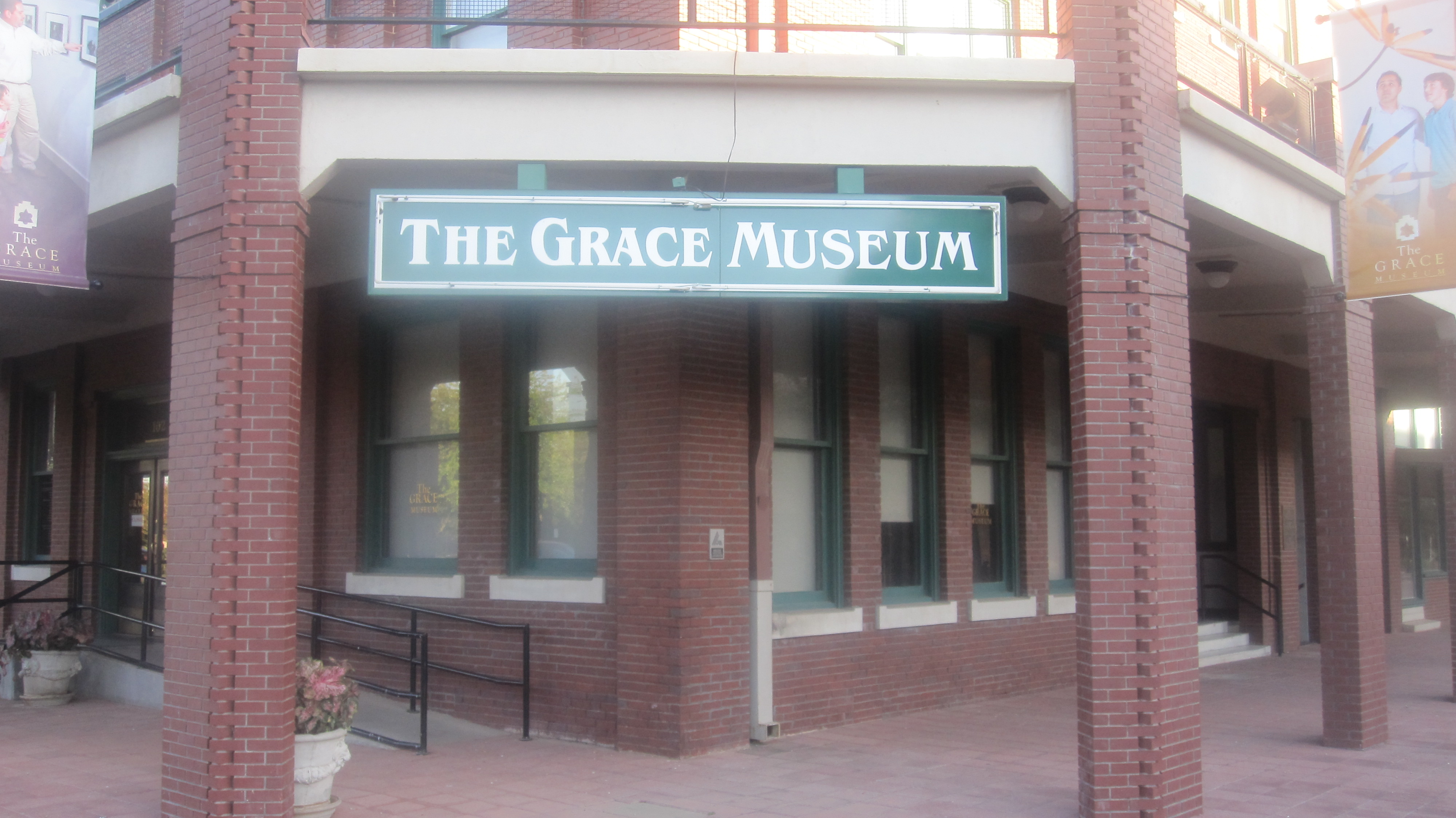 I took photo with Canon camera in Abilene, TX.